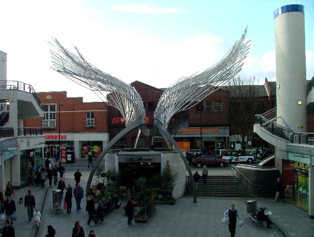 Angel Wings sculpture in a shopping precinct off Liverpool Road, Islington, London N1